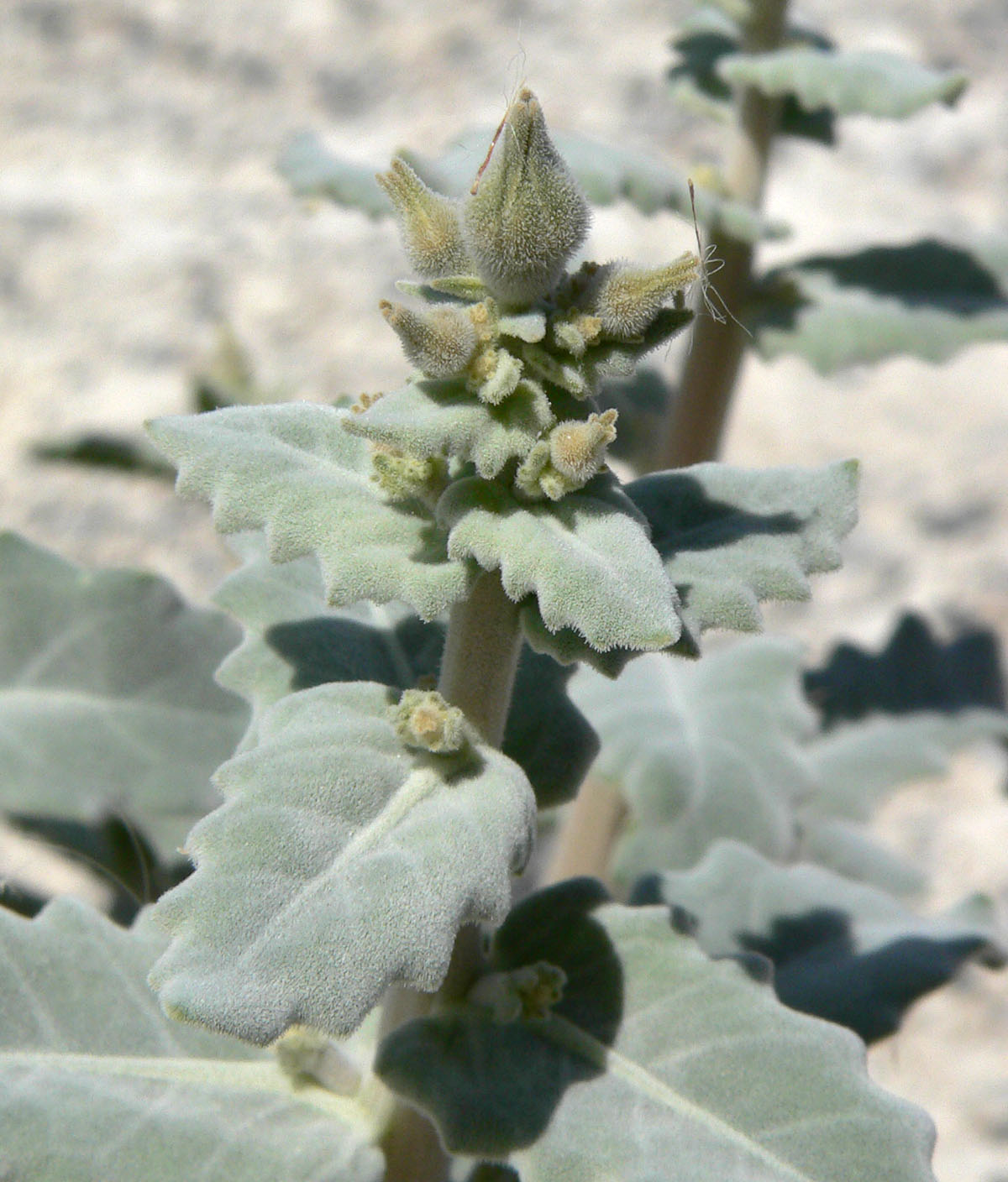 Mentzelia leucophylla — Ash Meadows blazingstar. Endemic to Ash Meadows, in the Amargosa Desert of southwestern Nevada. Off Ash Meadows Road, Ash Meadows National Wildlife Refuge, Nye County.